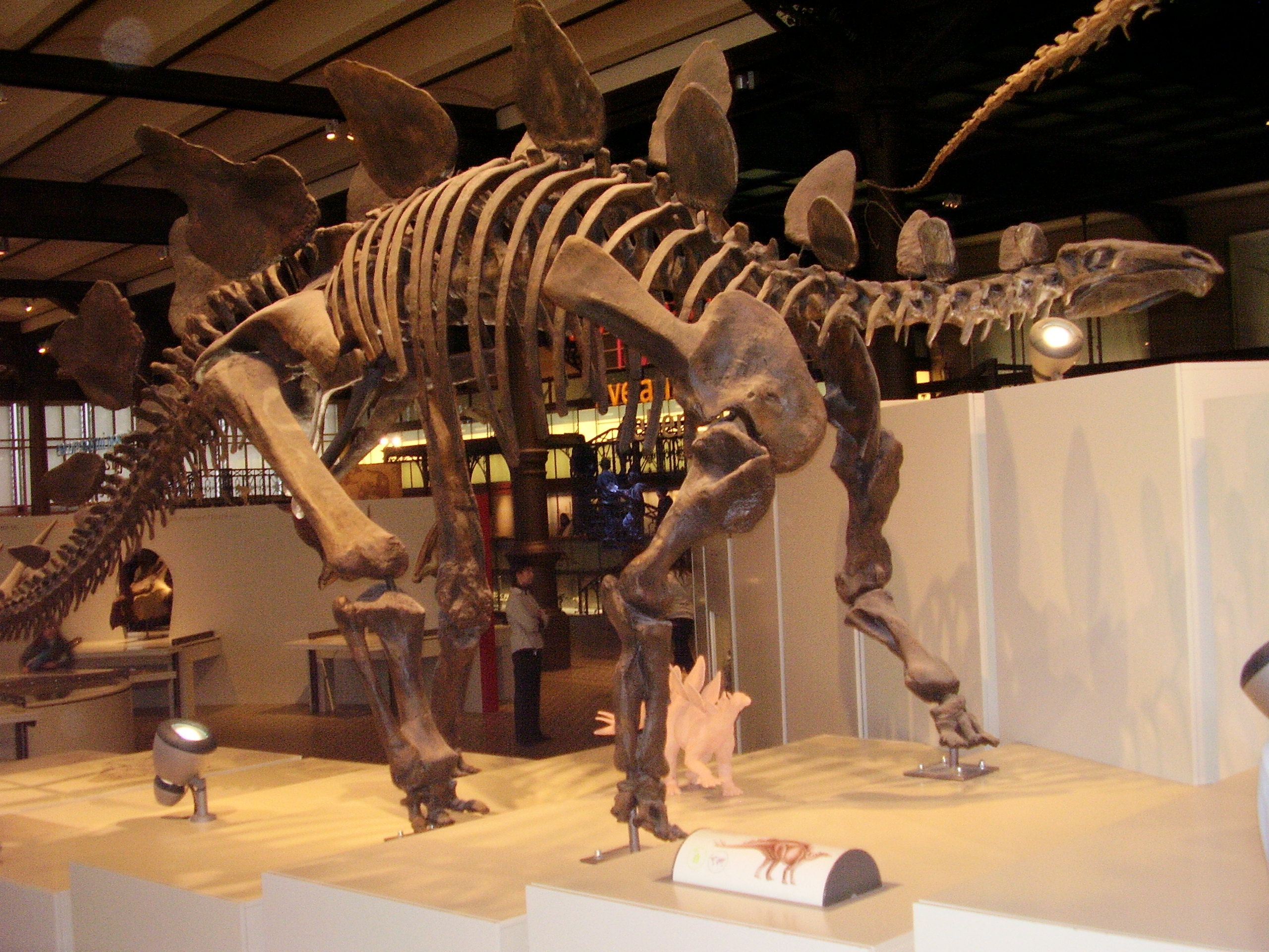 Stegosaurus skeletal mount in Brussels Natural history museum.